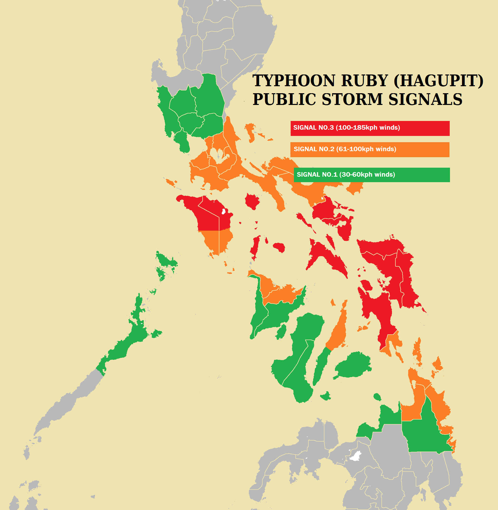 Public Storm Warning Signals during the passage of Typhoon Hagupit (Ruby) in the Philippines.